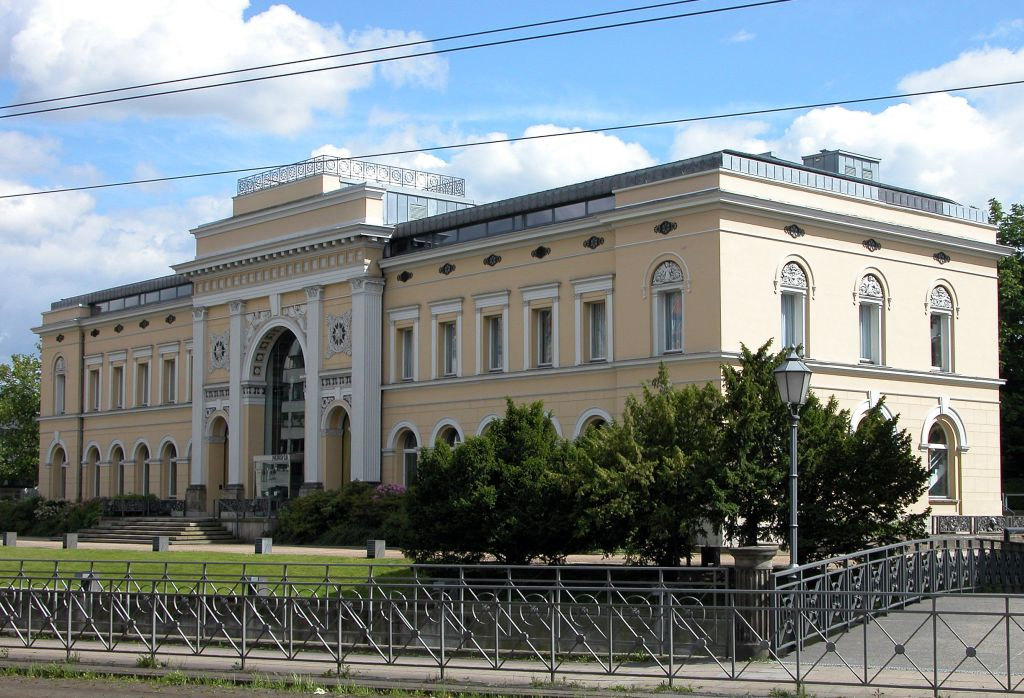 Brunswick, Germany: The “Old Station” in 2005 (now used by the Norddeutsche Landesbank, the State Bank of Lower Saxony).